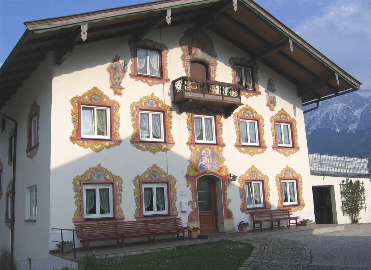 Niederndorf, Haus in der Kirchgasse This media shows the remarkable cultural object in the Austrian state of Tyrol listed by the Tyrolean Art Cadastre with the ID 50349. (on tirisMaps, pdf, more images on Commons, Wikidata)